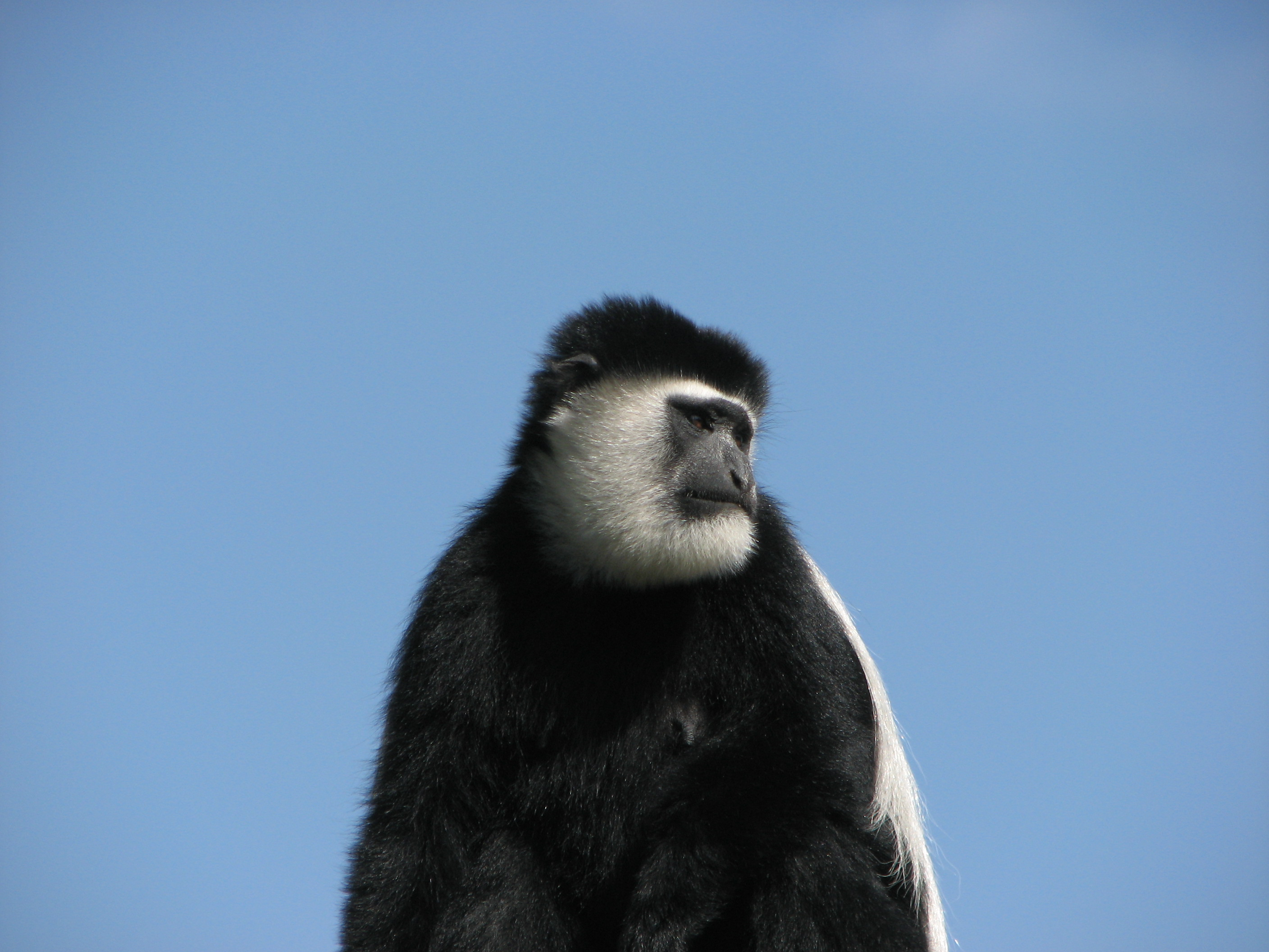 This is an image of food from Tanzania